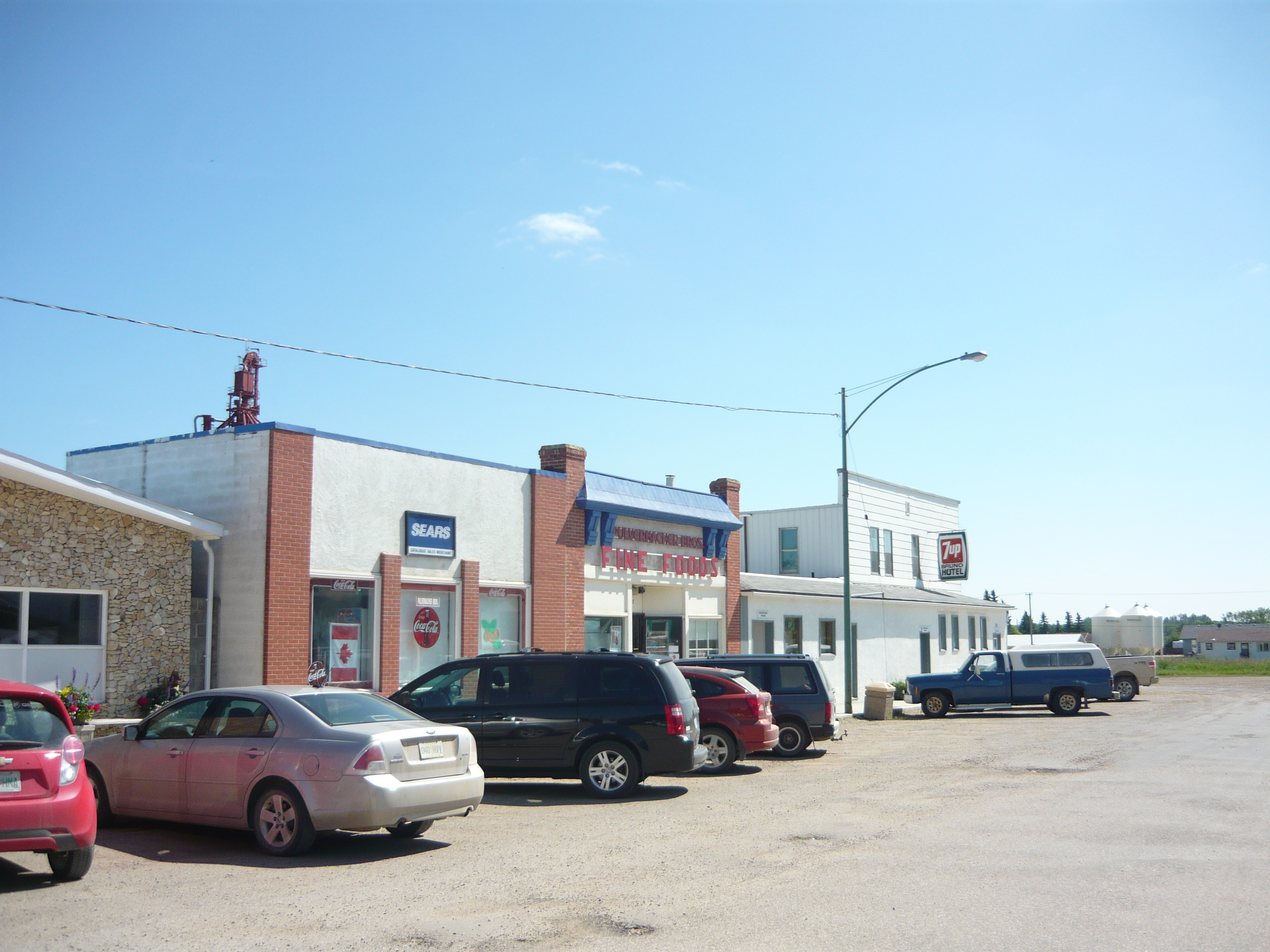 Main Street, Bruno, Saskatchewan, Canada. The two-story building is the Bruno Hotel.